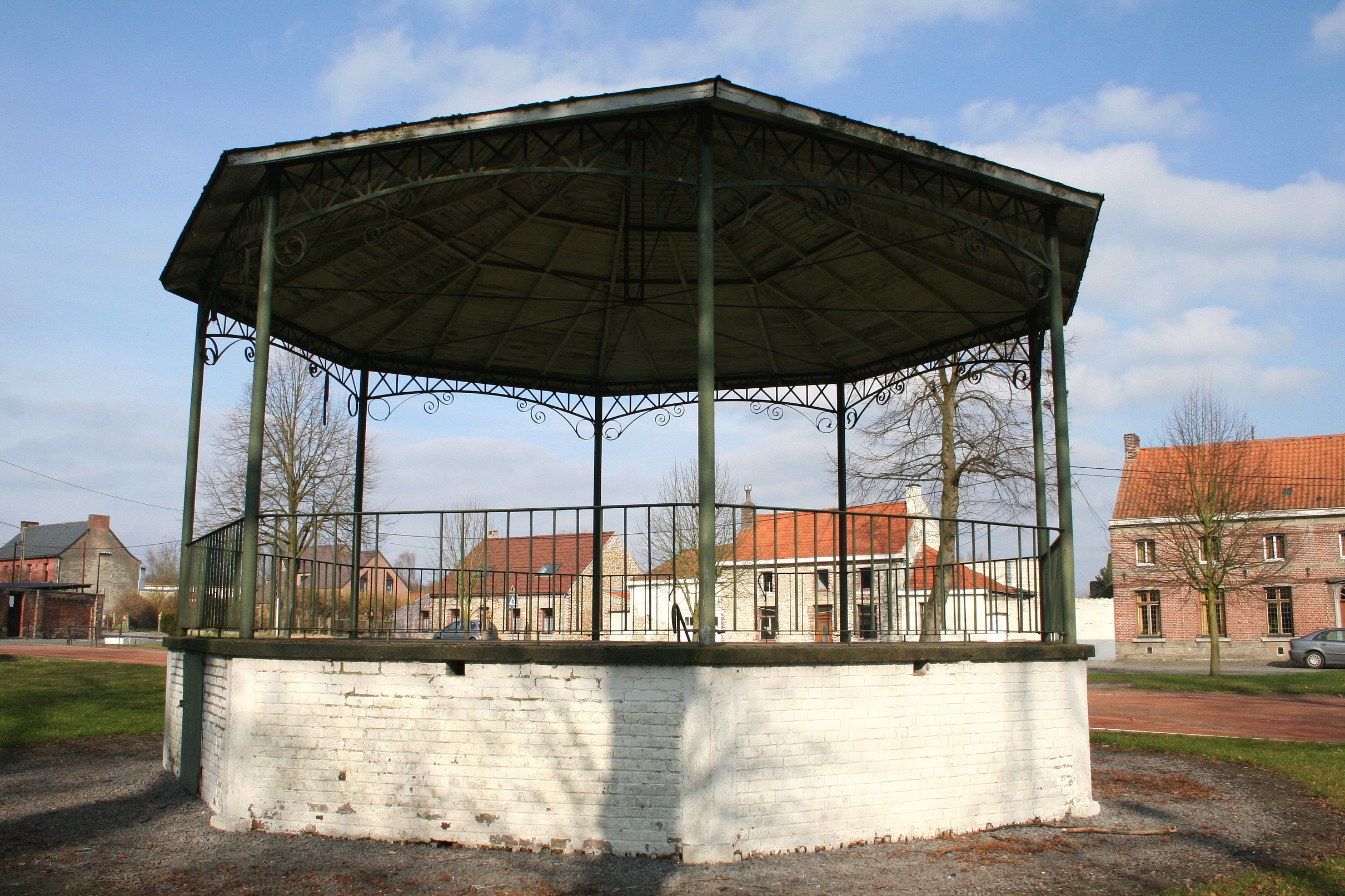 Ville-Pommerœul (Belgium), place de Ville - The bandstand.